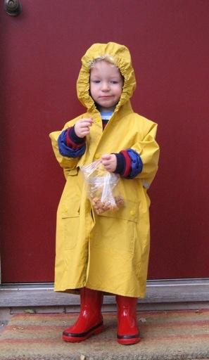 Child in a rain coat